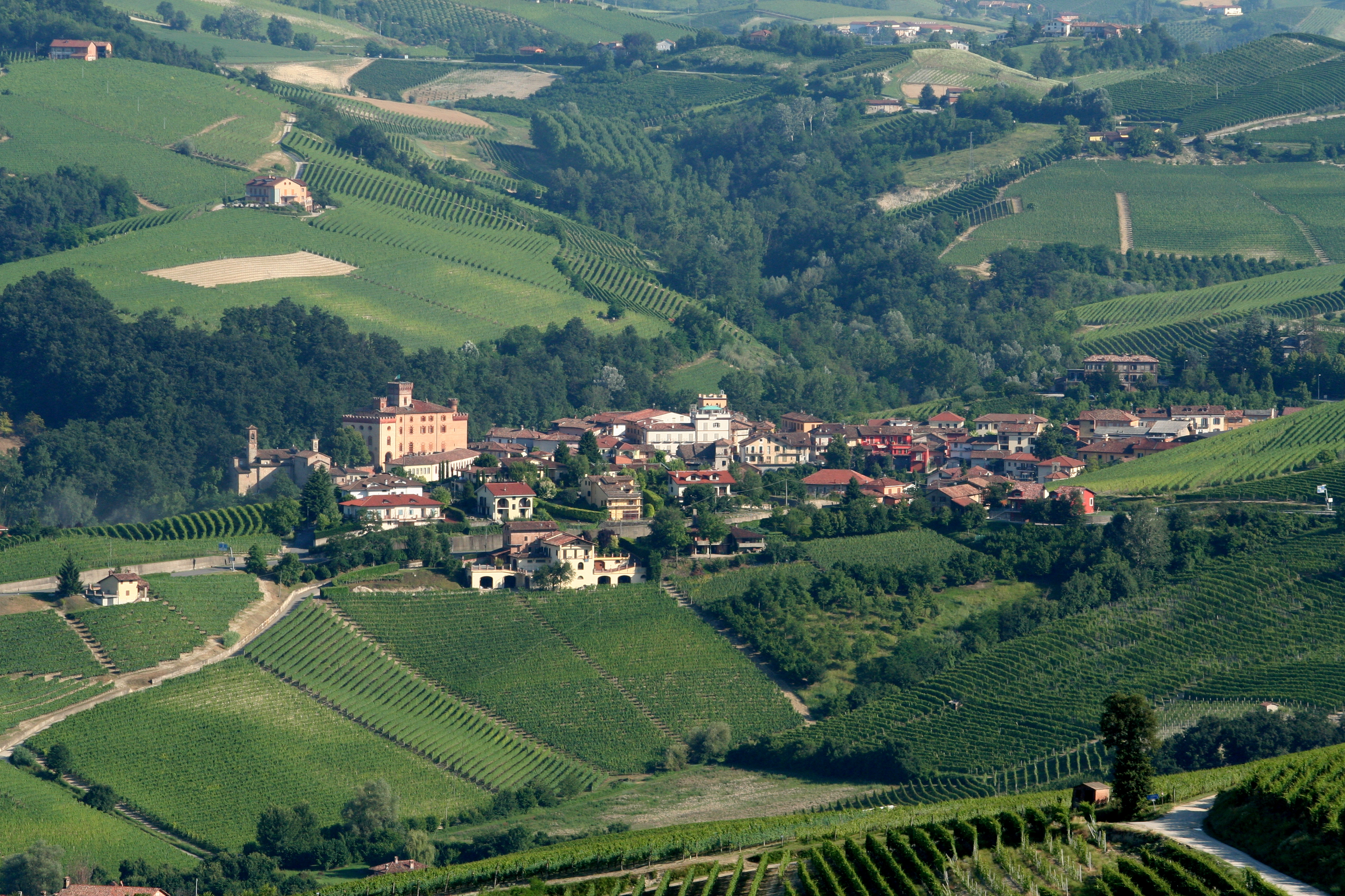 Village of Barolo in the Italian wine region of Piedmont with vineyards